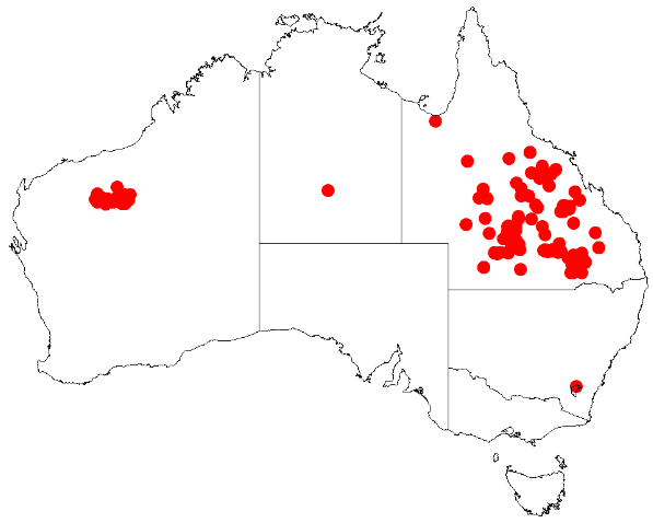 Acacia catenulata Occurrence data from Australasia Virtual Herbarium downloaded from on 8 December 2018